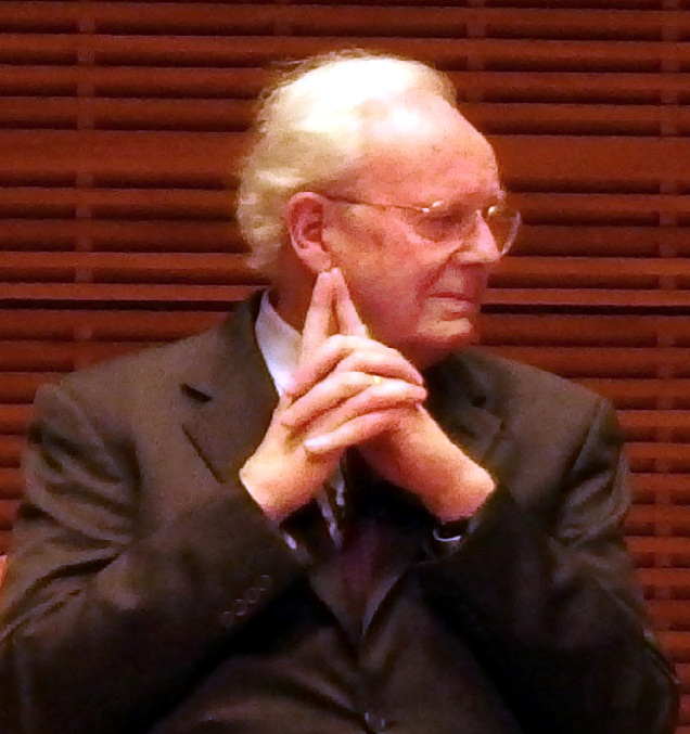 Close-up of Walter LaFeber, Andrew H. and James S. Tisch Distinguished University Professor Emeritus and a Stephen H. Weiss Presidential Fellow in the Department of History at Cornell University. Taken at a program on Cornell's contributions to American foreign policy, held at Zankel Hall within Carnegie Hall in New York.